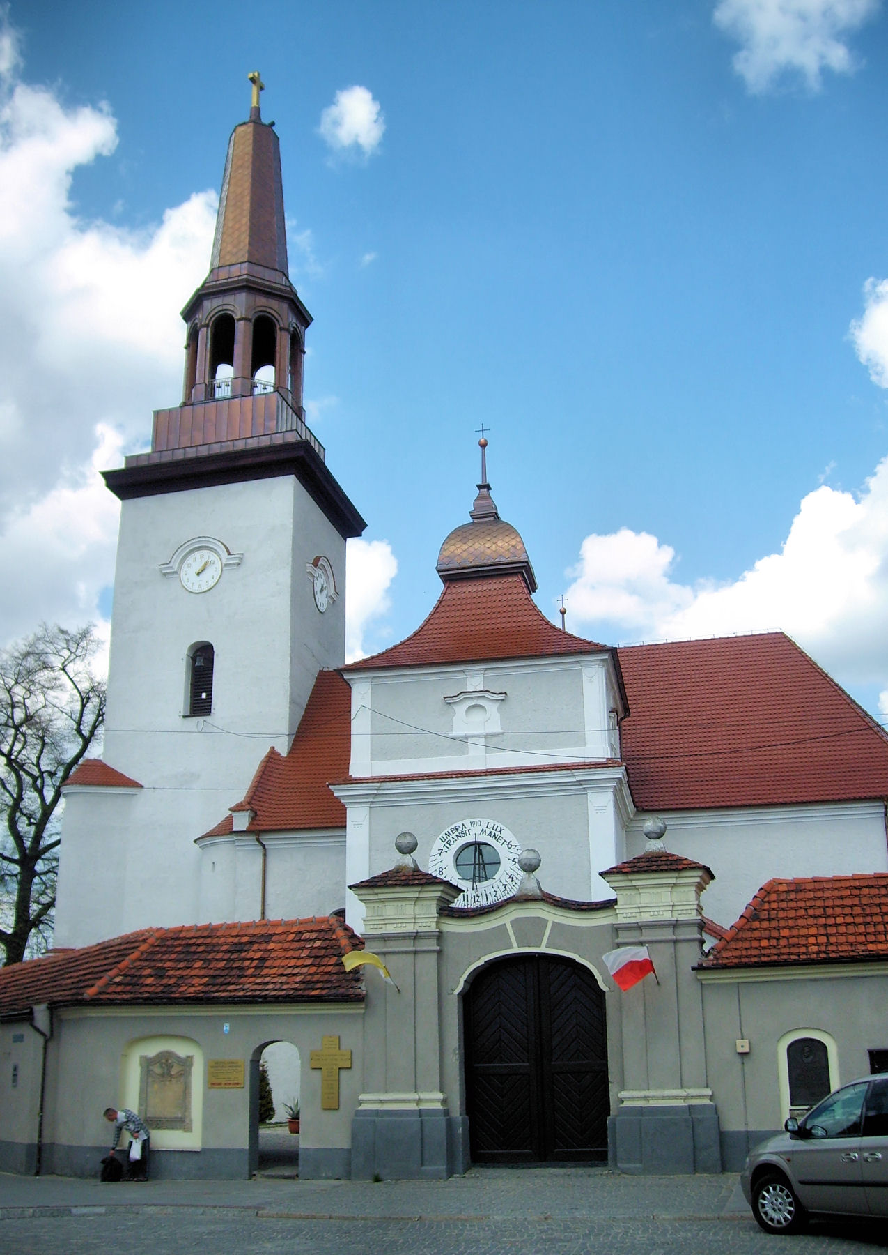 Church, Jarocin, Poland